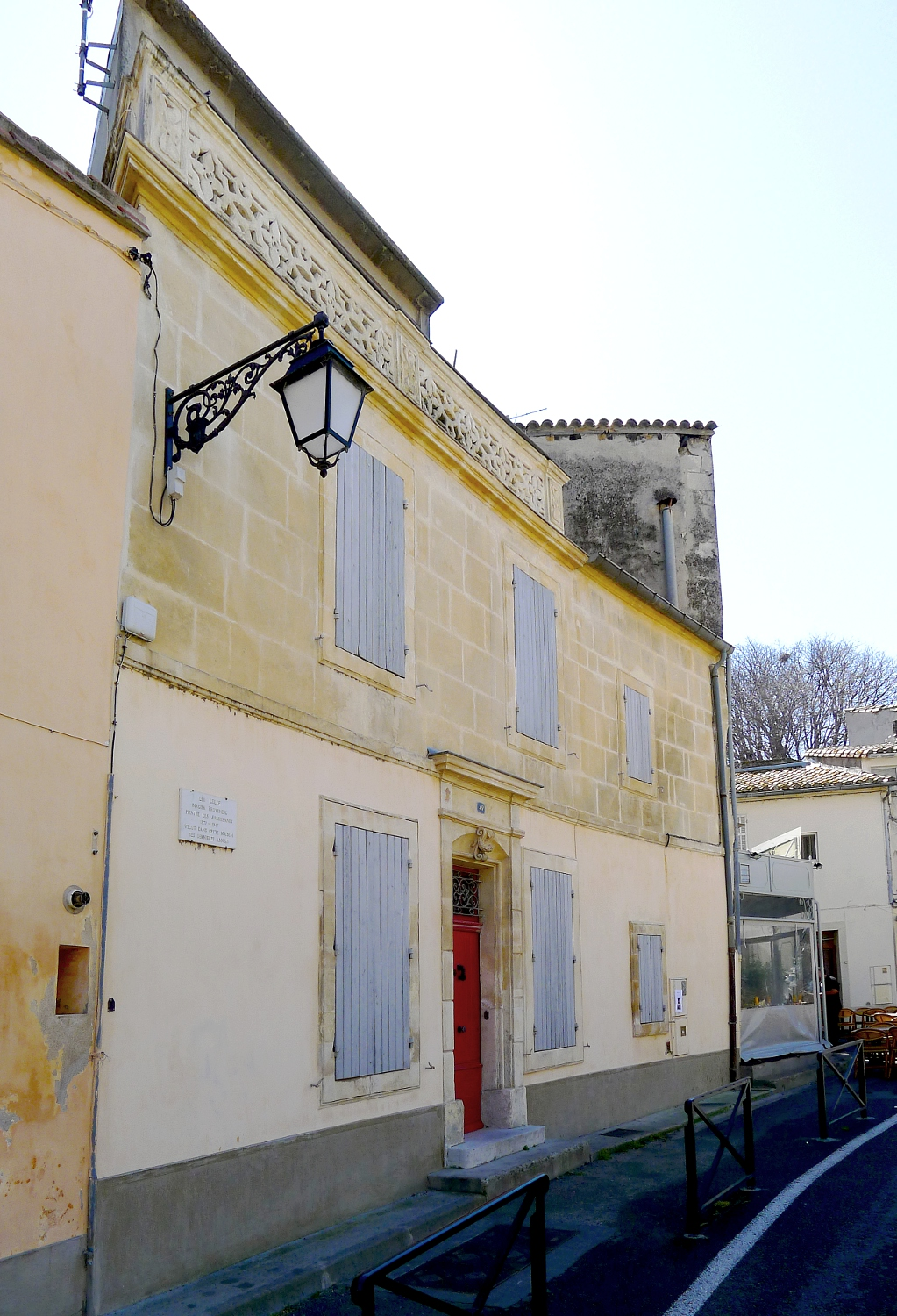 Auture district - Arles (Bouches-du-Rhône, France)